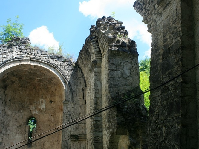 Medieval ruins at Cheremi, Kakheti, Georgia